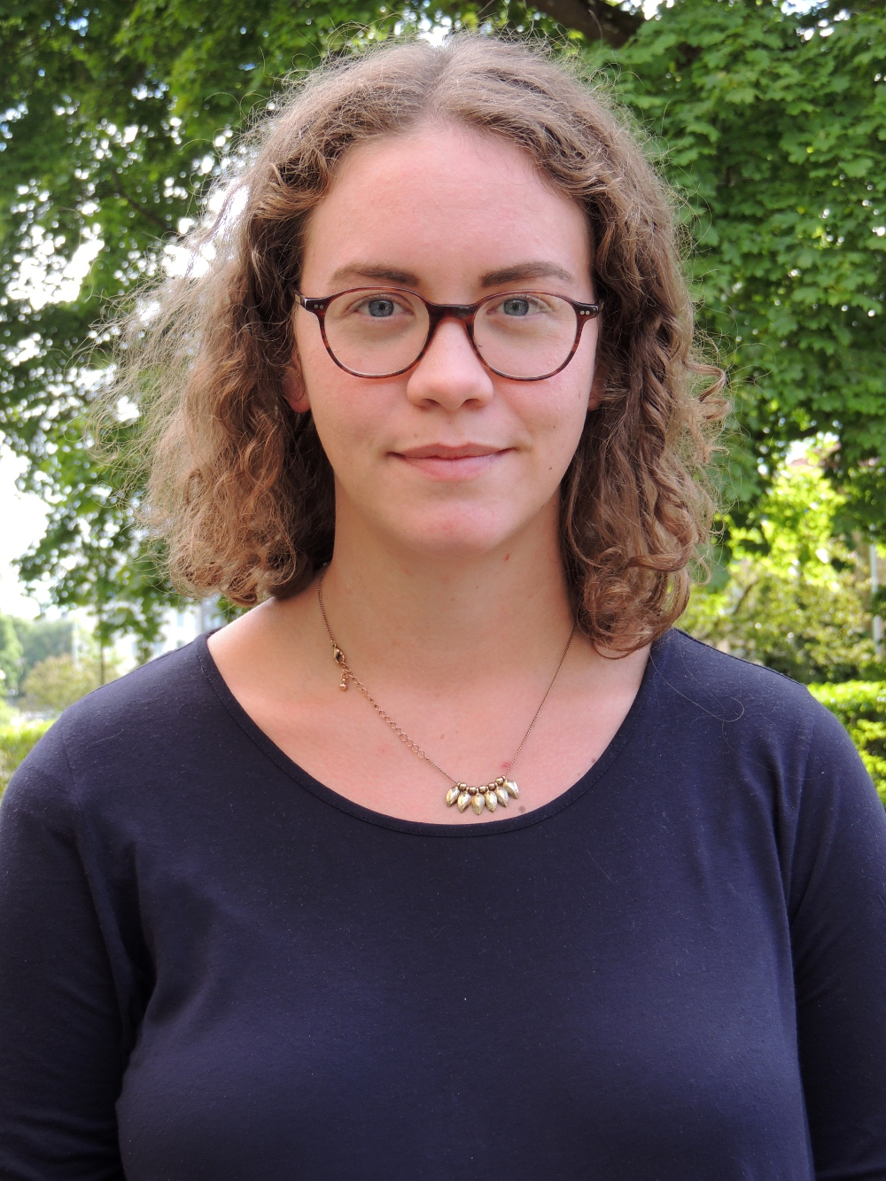 A Swedish author of literature for young adults.